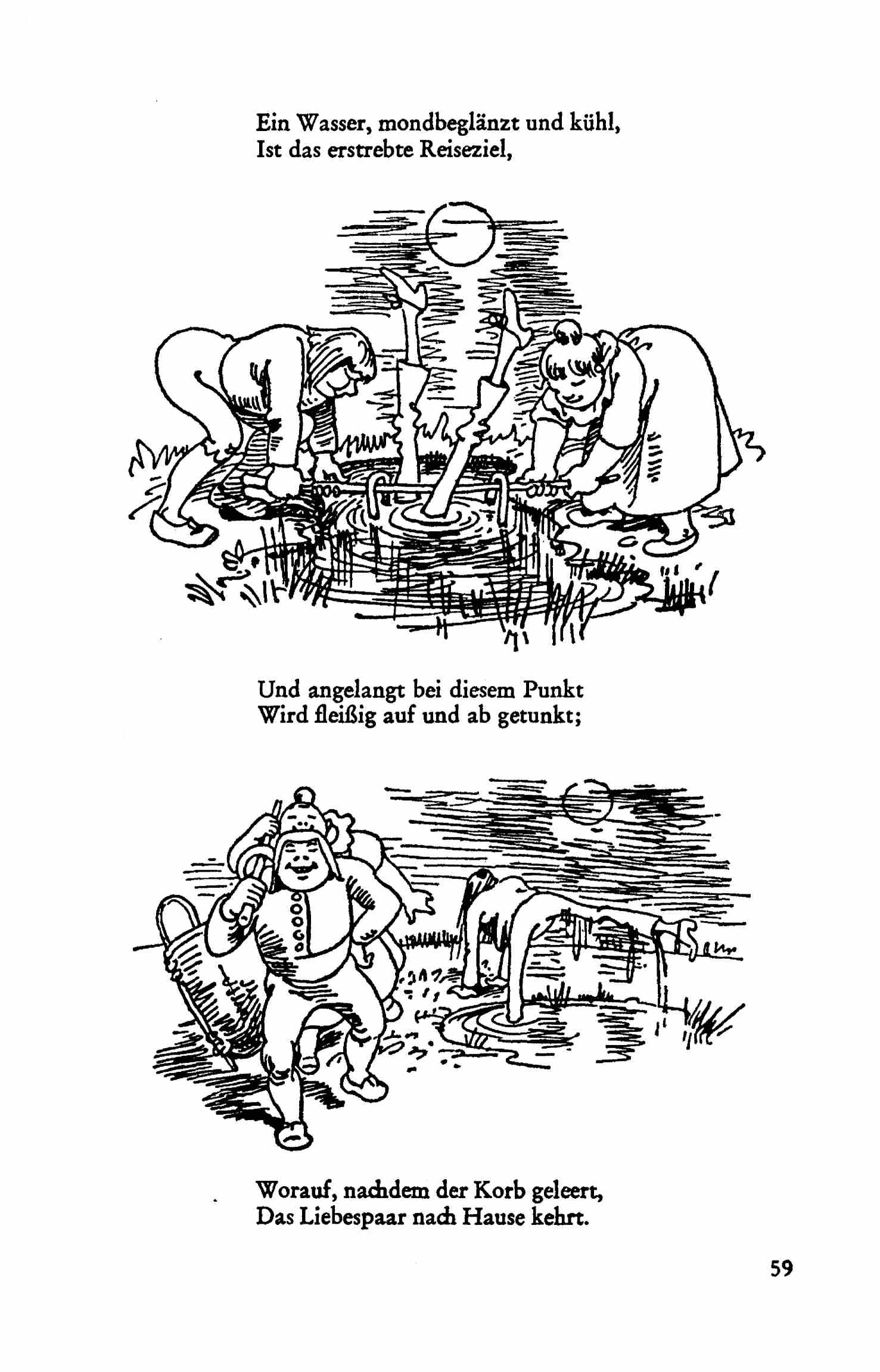 This is a scan of the historical document